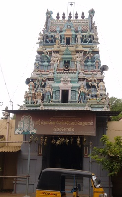 thanjavurmanambuchavadiprasannavenkatesaperumaltemple தஞ்சாவூர் மானம்புச்சாவடி பிரசன்ன வெங்கடேசப்பெருமாள் கோயில்